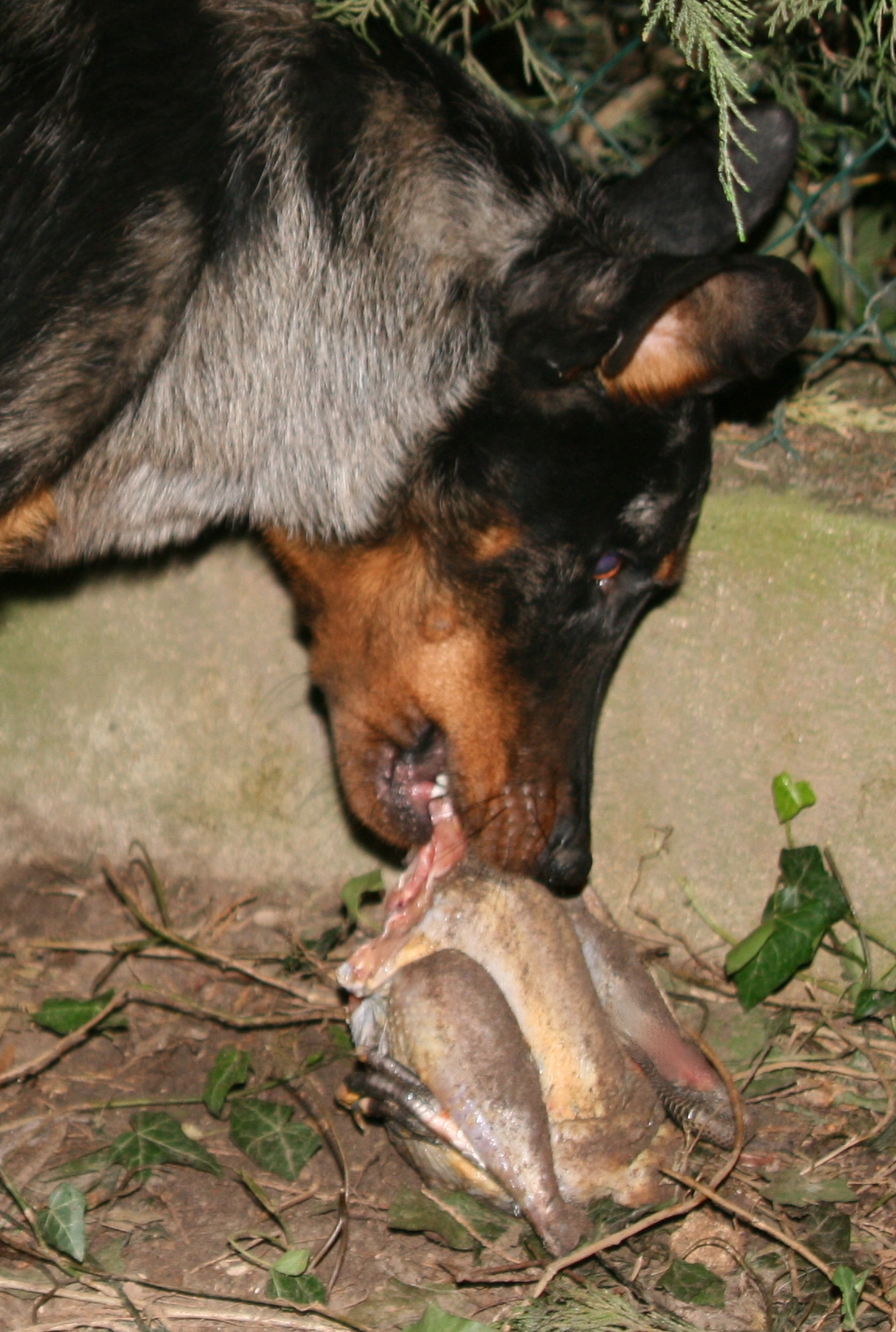 Dog eating a raw guinea fowl